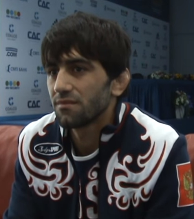 Beslan Zaudinovich Mudranov (Russian: Беслан Заудинович Мудранов; born 7 July 1986), a Russian judoka